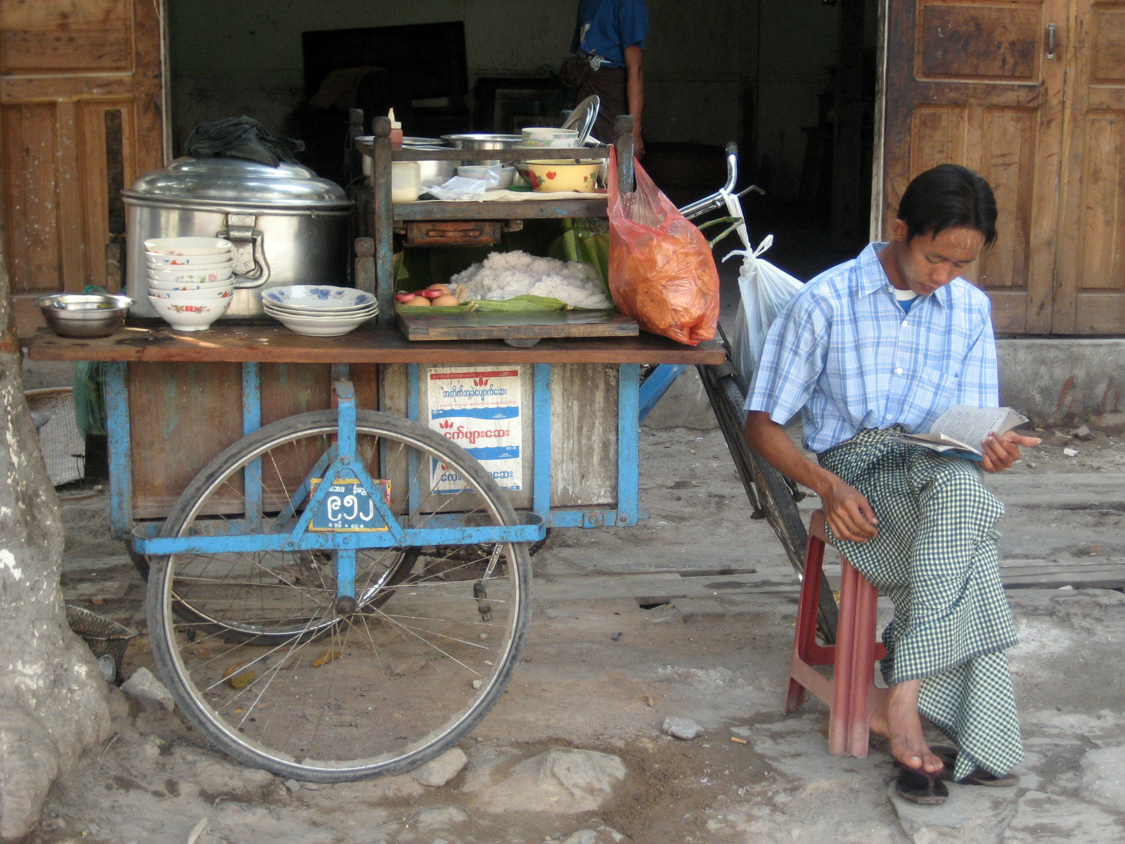 Mohinga is made available all day by a pavement stall such as this one in Mandalay, set up simply by parking a trishaw designed to carry a huge cauldron of fish soup on a stove and other ingredients. Rice vermicelli, boiled eggs, and split chickpea fritters (pè gyan gyaw) in a bag also shown in the photo.